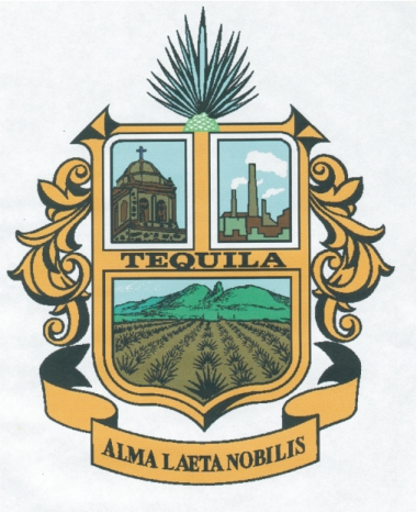 tequila coa